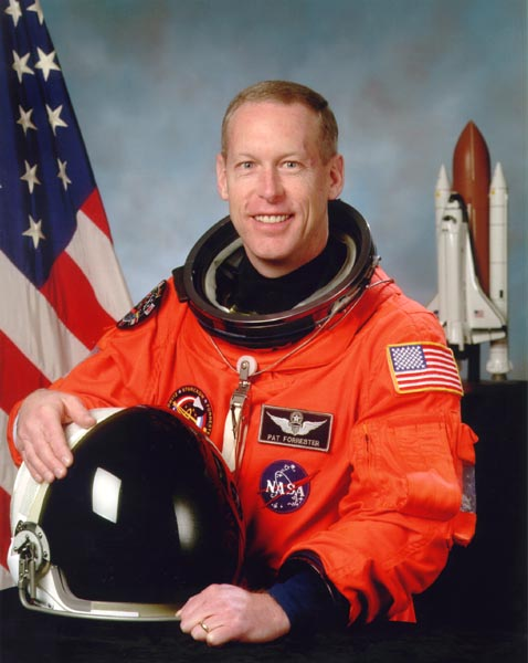 Astronaut Patrick G. Forrester